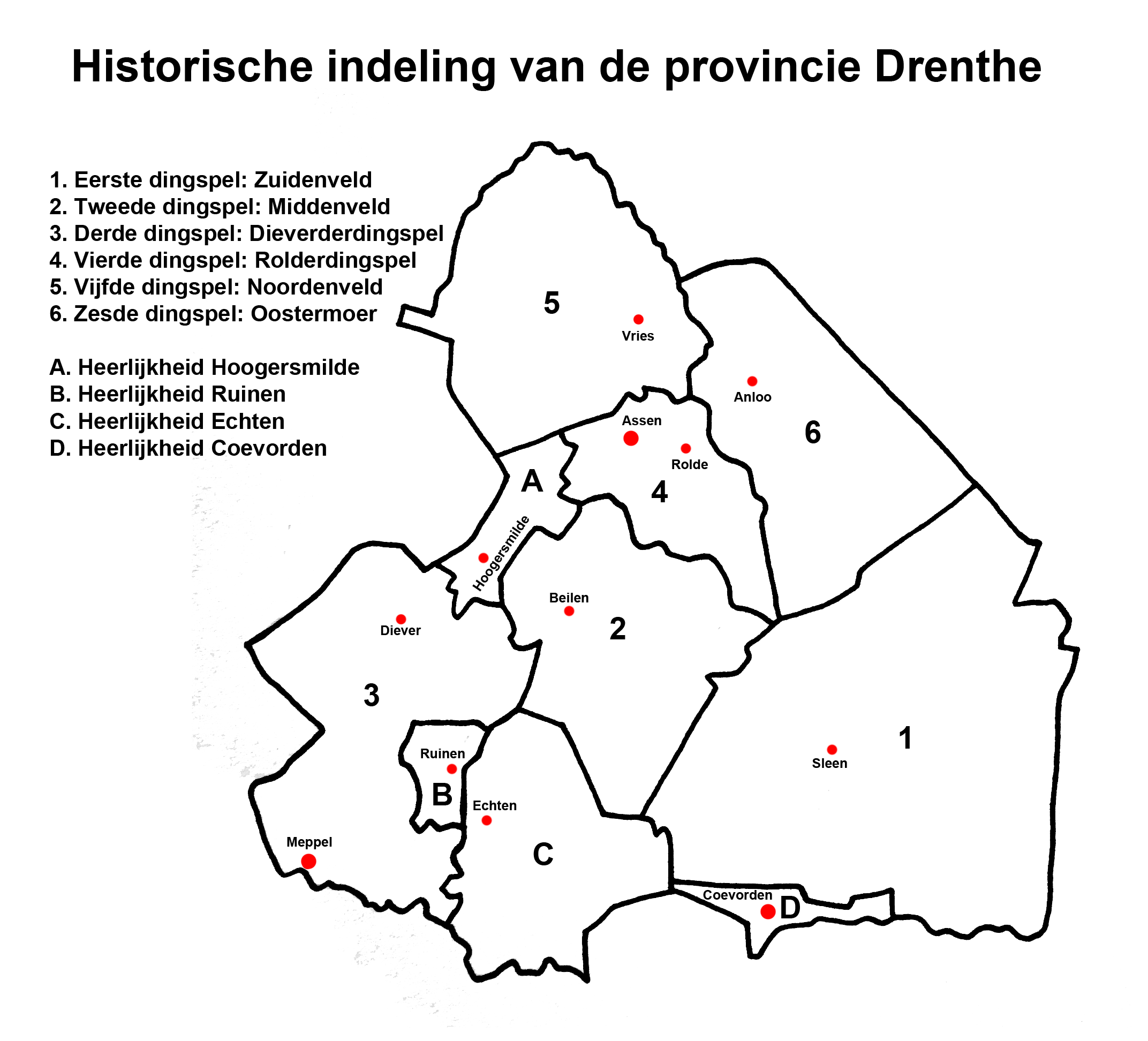 The historical internal borders of the province of Drenthe. Nedersaksies: De vroggere binnengrèenzen van de previncie Drenthe.